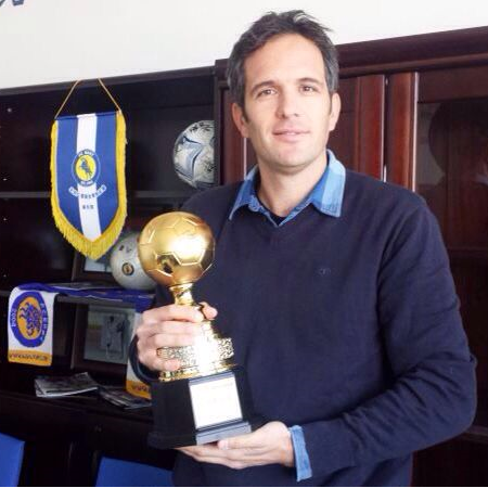 Goran Tomic